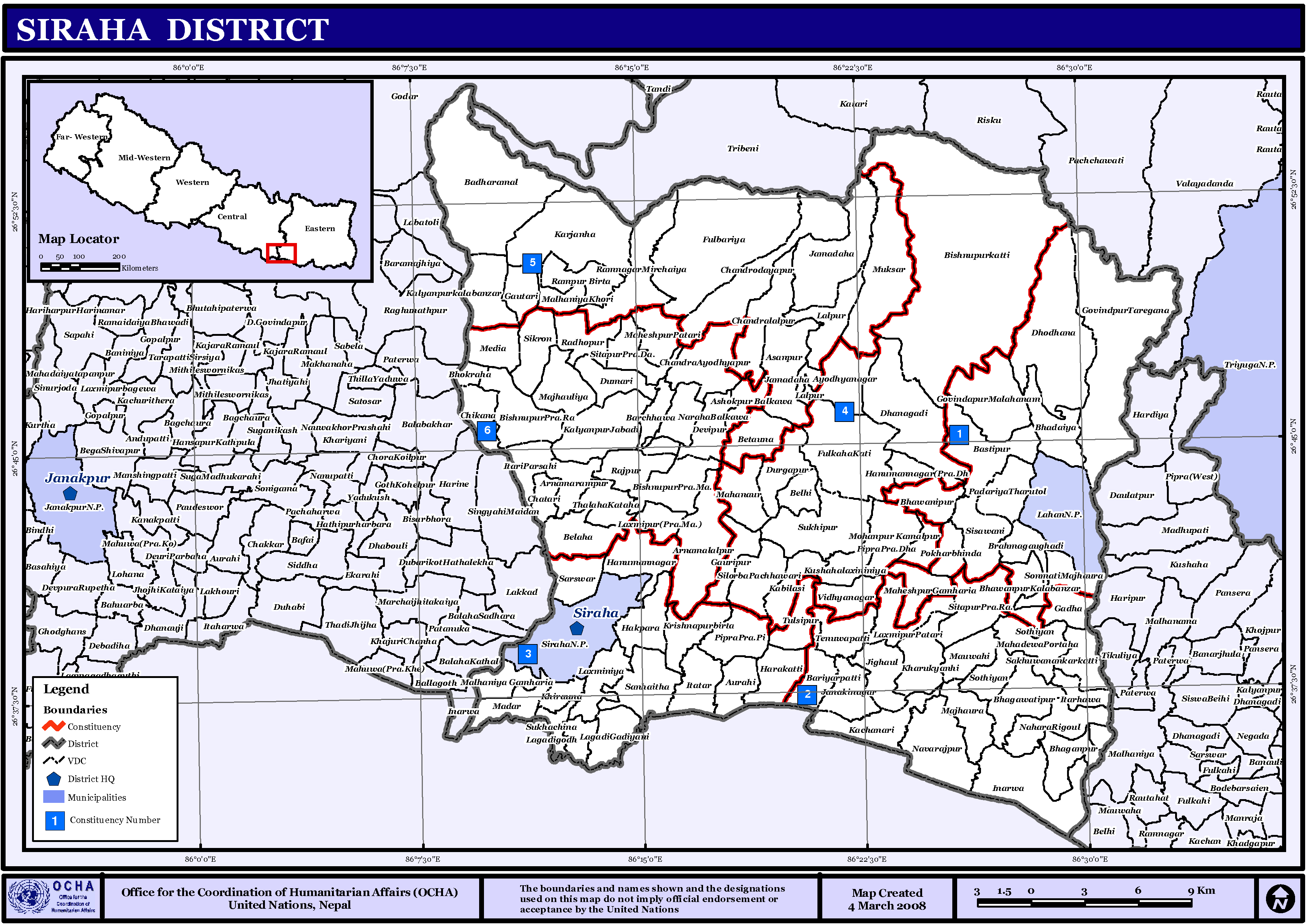 Map displaying Village Development Committees in Siraha District, Nepal